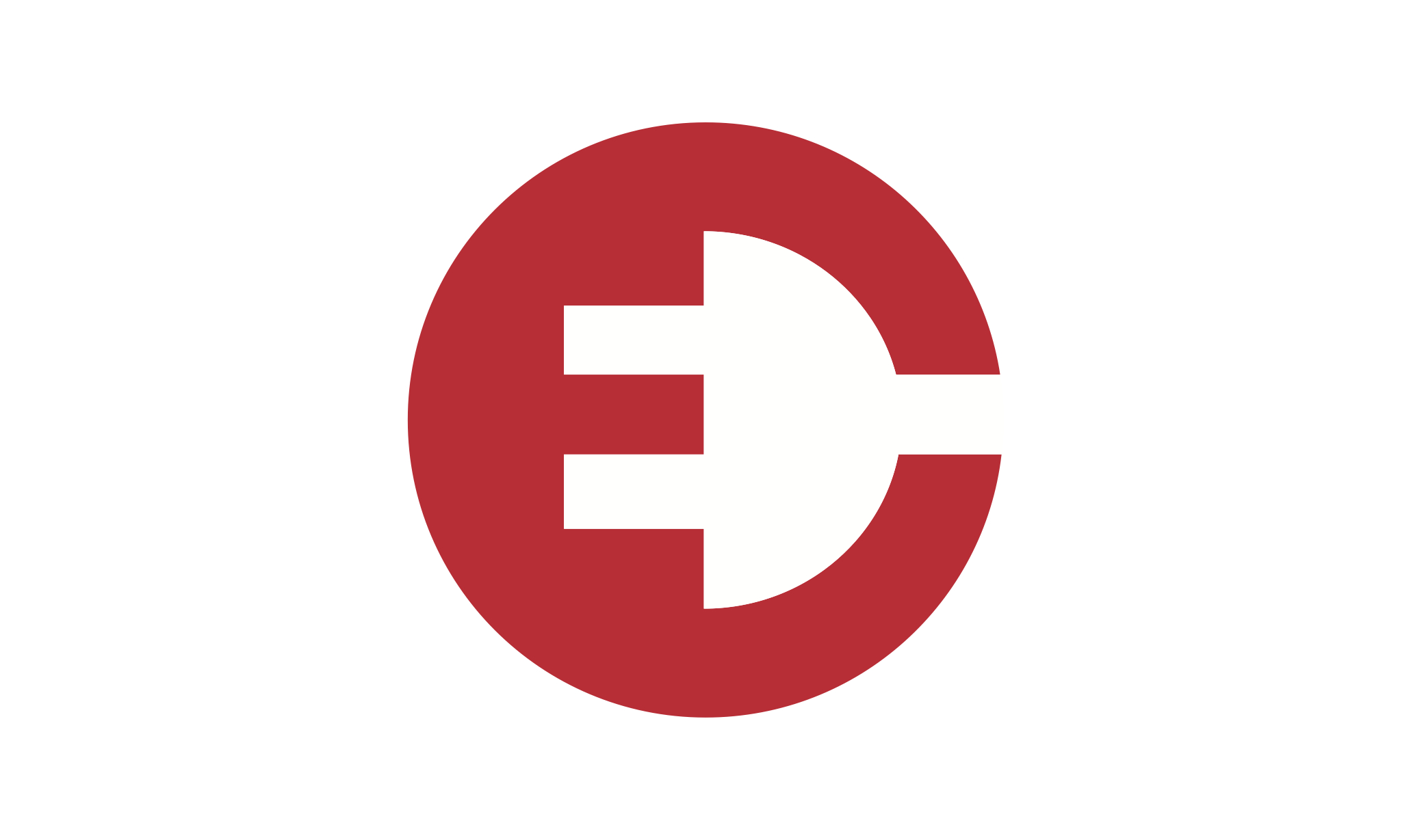 Etienne de Crécy logo